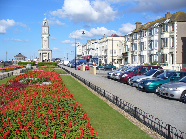 Tower Gardens, Herne Bay Manicured lawns and flower beds on the Central Parade are backed by a terrace of apartments and hotels. In the background is the Clock Tower, a classical structure, 85 feet high, dating back to 1837.